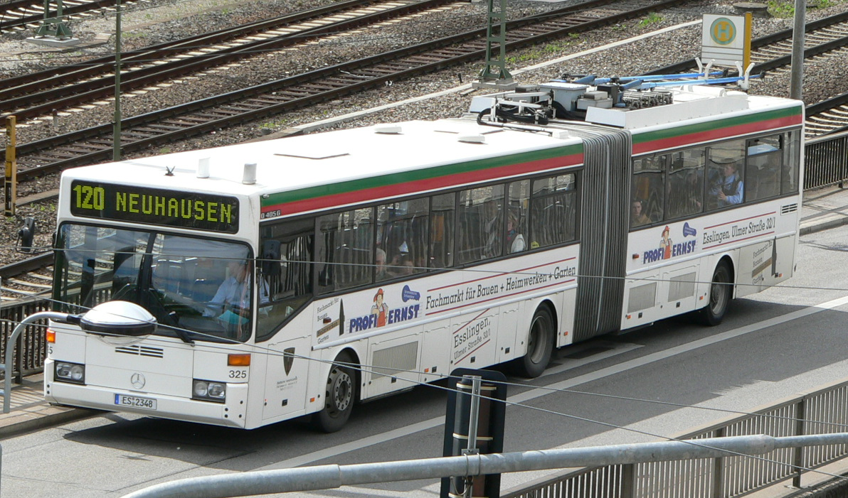 Mercedes-Benz dual-mode bus (or duobus) with electrical and diesel gear in Esslingen am Neckar, Germany